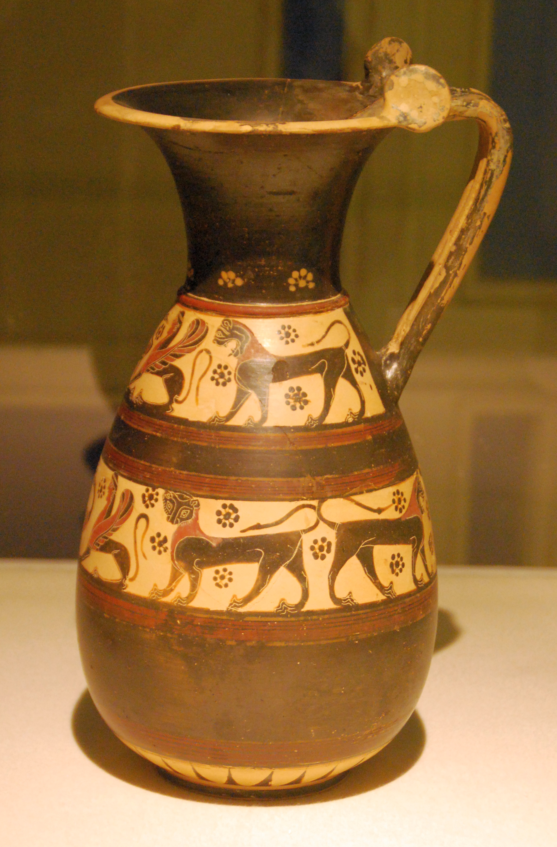 Uploaded Raw material, everybody can work on Names, Categories, Descriptions and so on.. - pictures of descriptions should be deleted after usage.